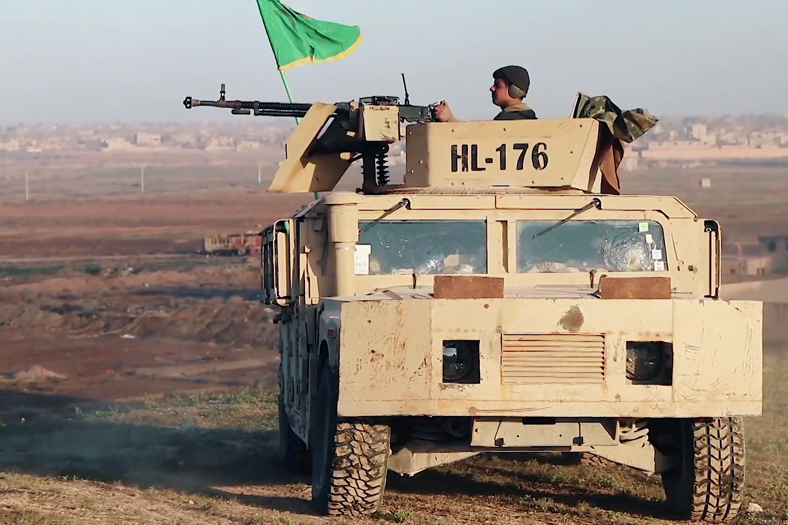 In eastern Syria, U.S.-backed Syrian Democratic Forces (SDF) say Islamic State is trying to slow the attack on the terror group's last scrap of territory in the town of Baghuz by using snipers, suicide bombers and civilians as human shields.